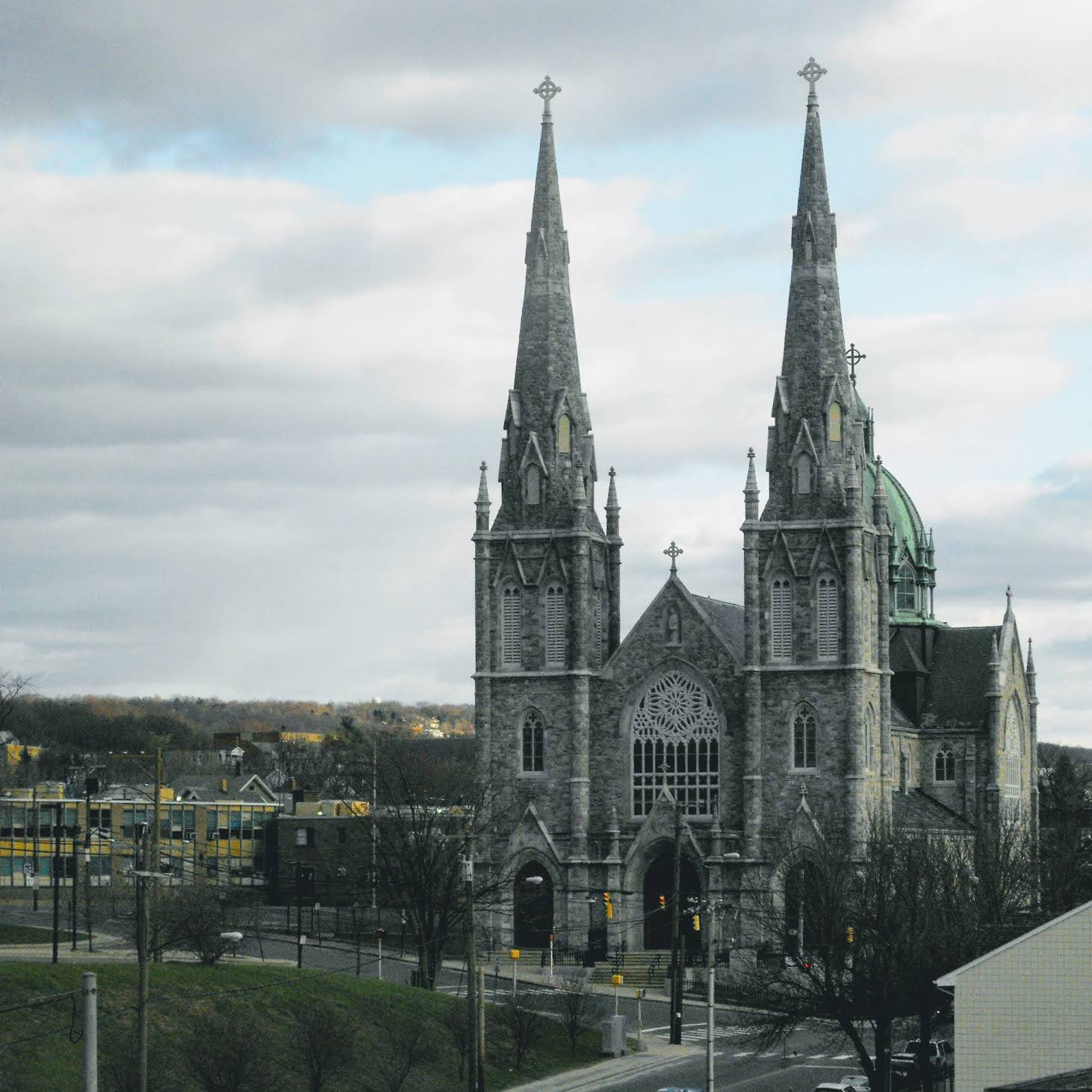 Twin-spired Catholic church in Waterbury Connecticut, viewed from Interstate 84.